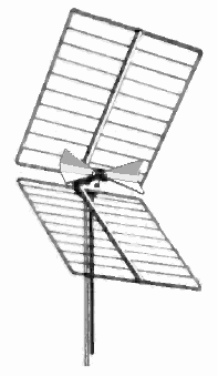 A drawing of a corner reflector UHF television antenna from a 1954 advertisement in an electronics magazine. The corner reflector was a common antenna used for analog UHF TV reception. It consists of a "bow tie" dipole driven element made of a pair of sheet metal triangles suspended between two flat rectangular metal grill reflecting surfaces at an angle of 90°. The corner reflector's advantages were a high gain of 12-15 dBi, a large front-to-back ratio, and a wide bandwidth, much wider than the Yagi antenna. Alterations to image: Cropped out the rest of the advertisement. Cloned in a little of the reflector screen in upper left corner where it was obscured by other picture elements. Added shading to bow-tie dipole to make its shape clearer.